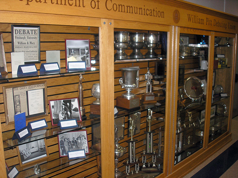 Trophy case of the William Pitt Debating Union, part of the University of Pittsburgh Department of Communications. The case is located on the eleventh floor of the Cathedral of Learning.